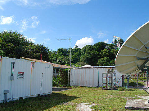 The ARM Climate Research Facility at Nauru contains a complete suite of ground-based instruments including lidar, radar, sounding systems, and a full set of radiometers. In addition, the Nauru site has an atmospheric emitted radiance interferometer, a hydrogen generator to produce lift gas for the balloon soundings, and a remote balloon launcher.